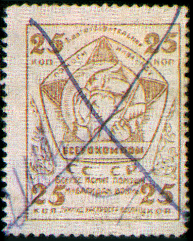 Revenue stamp of voluntary gathering of the All-Russia committee of the help to invalids of war, 1925